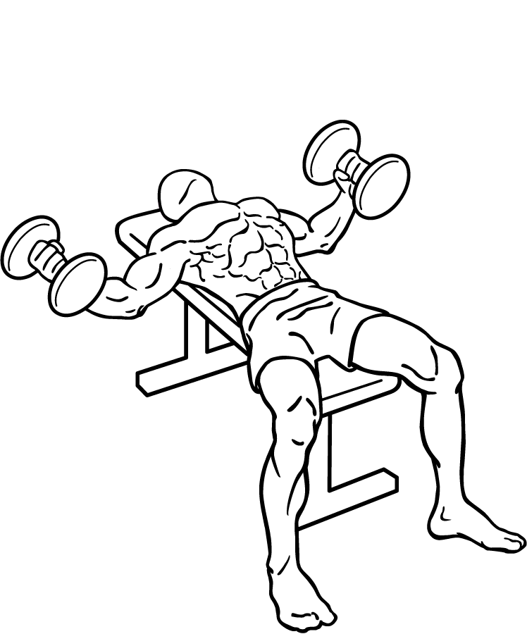 an exercise of chest